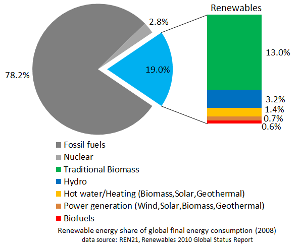 Renewable Energy Share of Global Final Energy Consumption, 2008